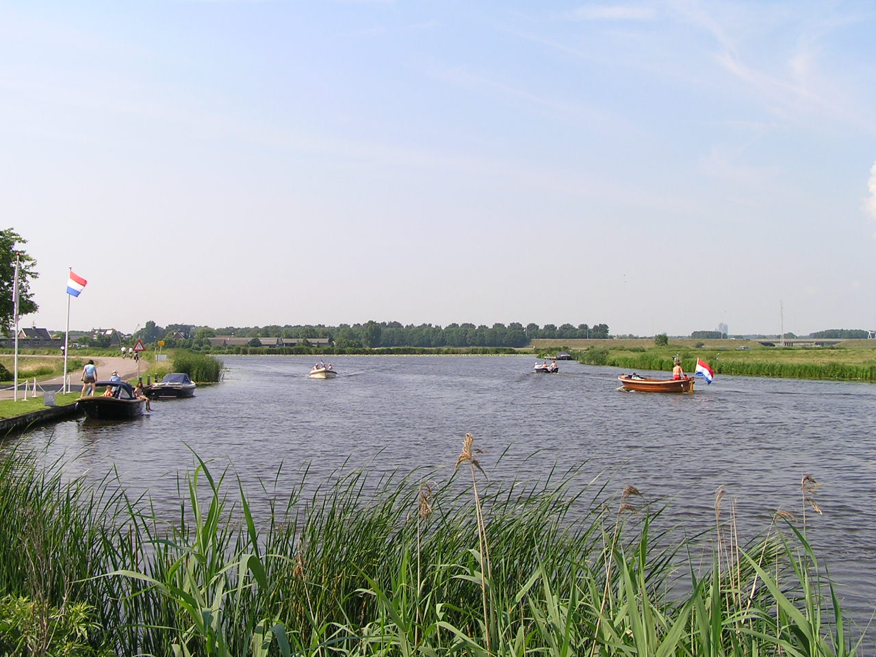 Bullewijk river.